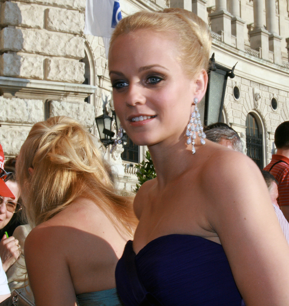 Mirjam Weichselbraun at the Romy TV awards (Hofburg Imperial Palace in Vienna)